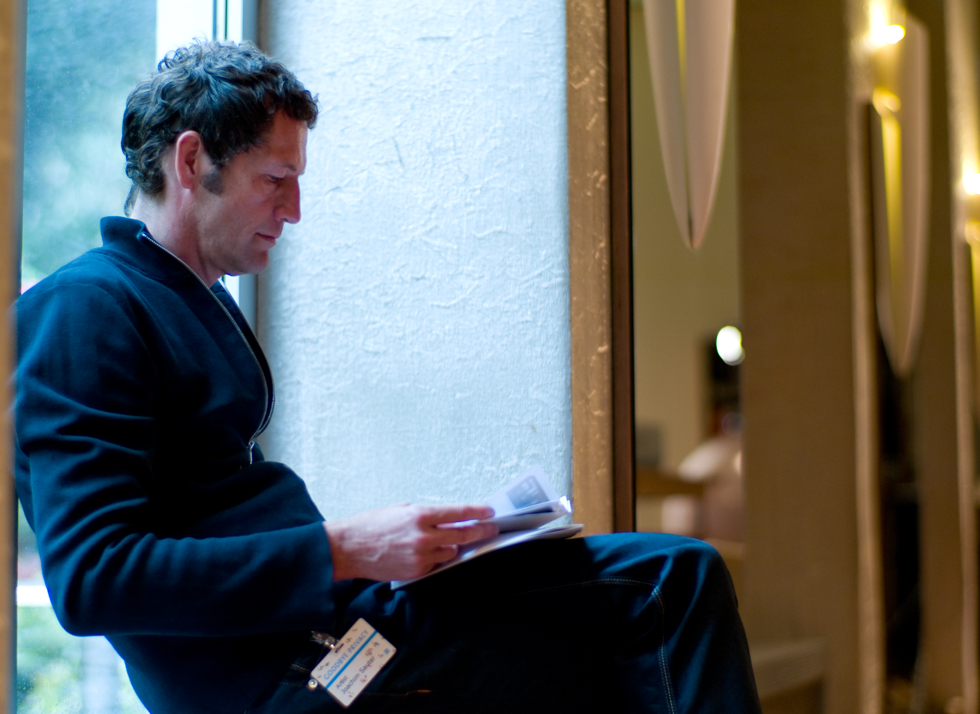 Joachim Sauter